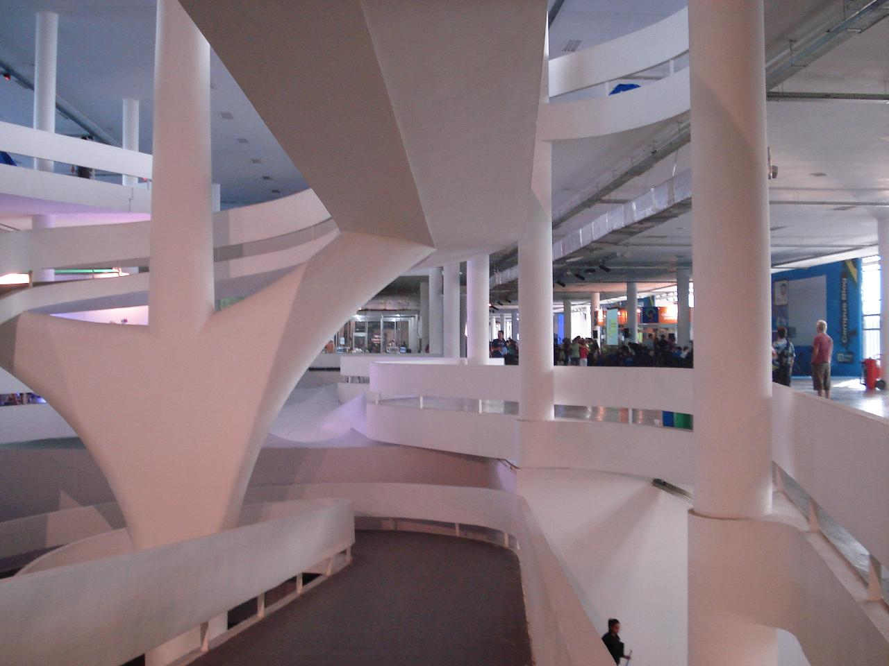 Campus Party Brasil 2008 - Bienal